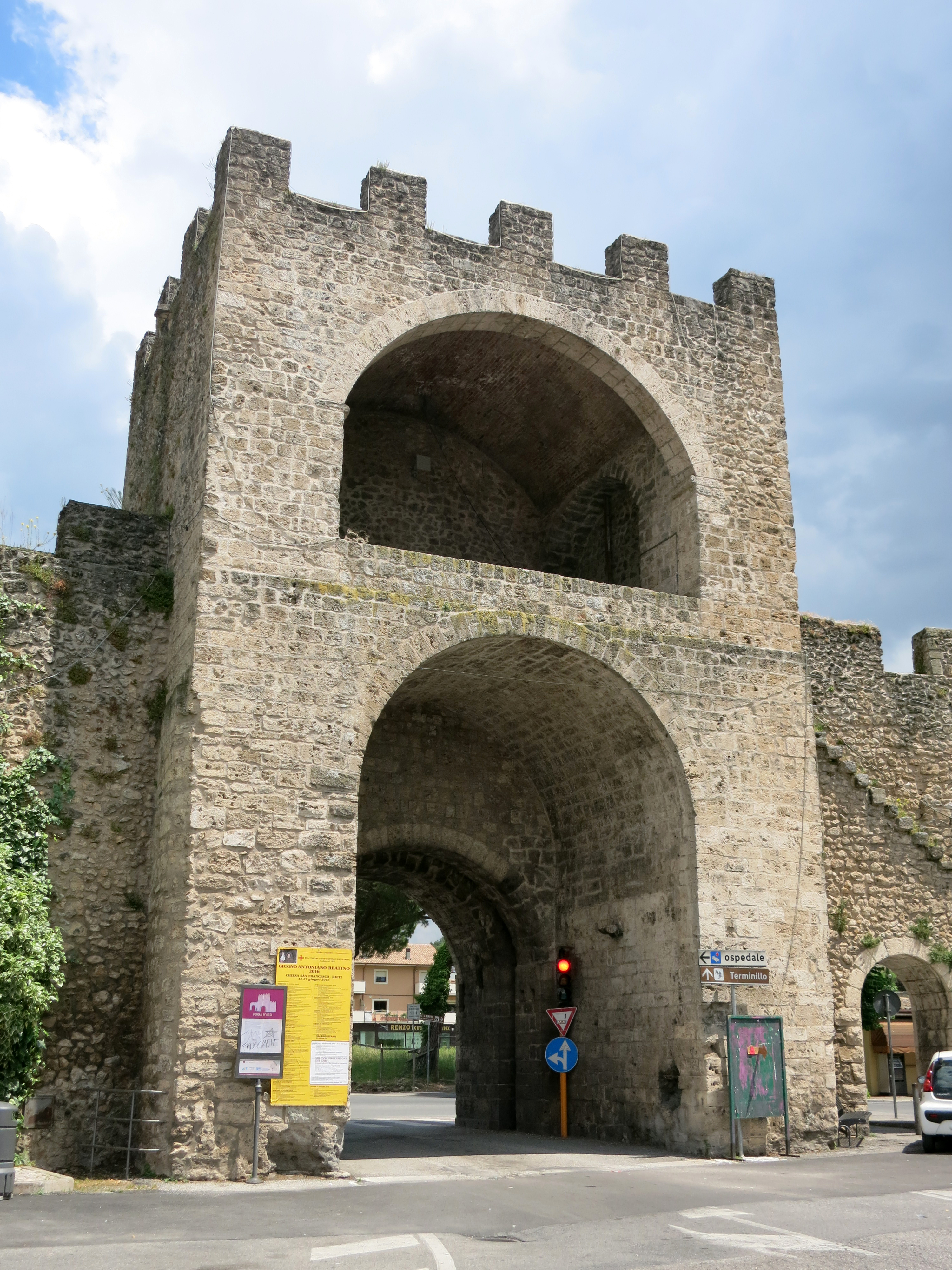 Porta d'Arci City Gate - medioeval walls of Rieti (Lazio, Italy)